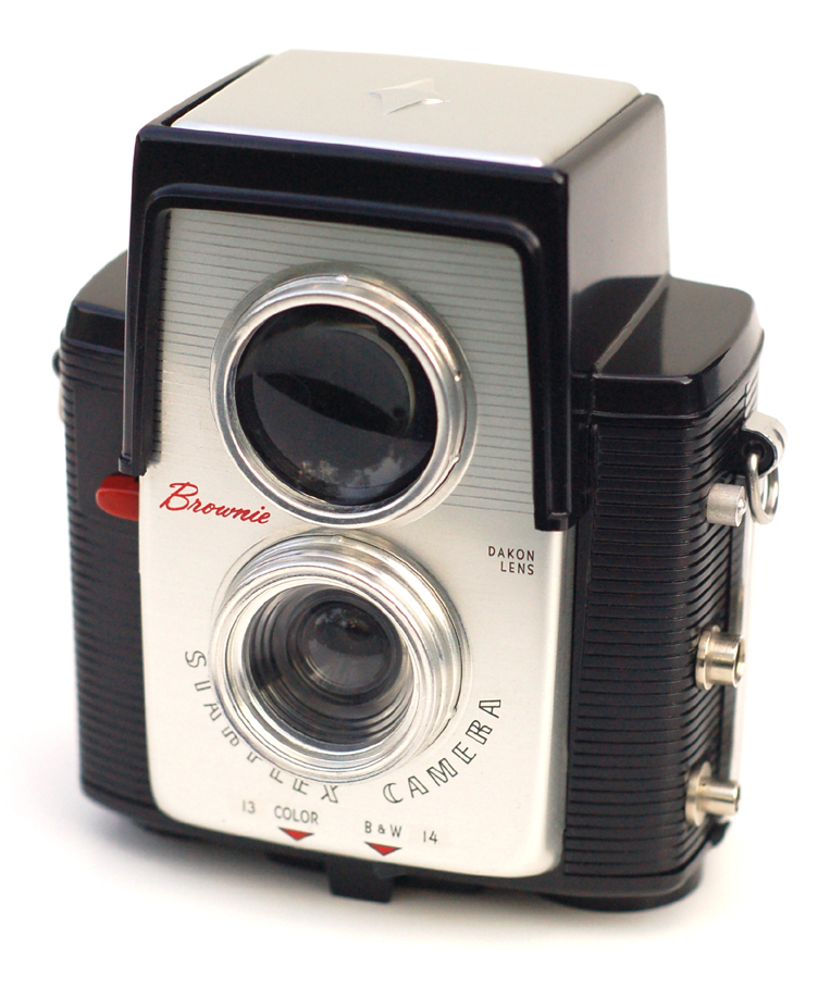 The Starflex is a TLR-style camera, introduced in 1957 and designed by Arthur Crapsey. It's got a great waist-level viewfinder, and a nifty folding sports finder on the bottom. Not a very exciting camera, but it has lots of potential for TtV photography because they're easy to find, they have a nice big viewfinder, and they're lighter and cheaper than a Duaflex!